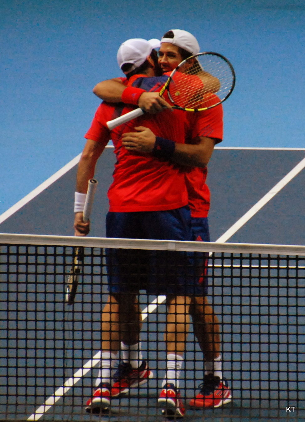 Fernando Verdasco and David Marrero after their win at the 2013 ATP World Tour Finals